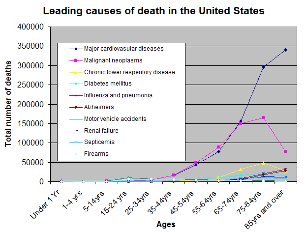 Causes of death by age group (see List of causes of death by rate)